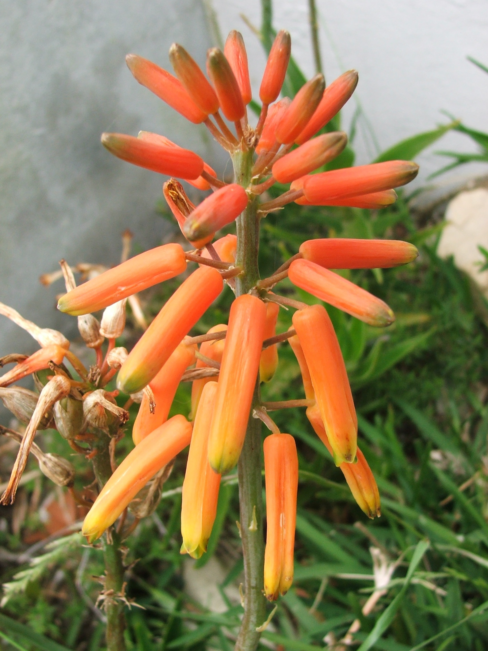 A close up of the flower of Aloe juddii. Cape Agulhas.